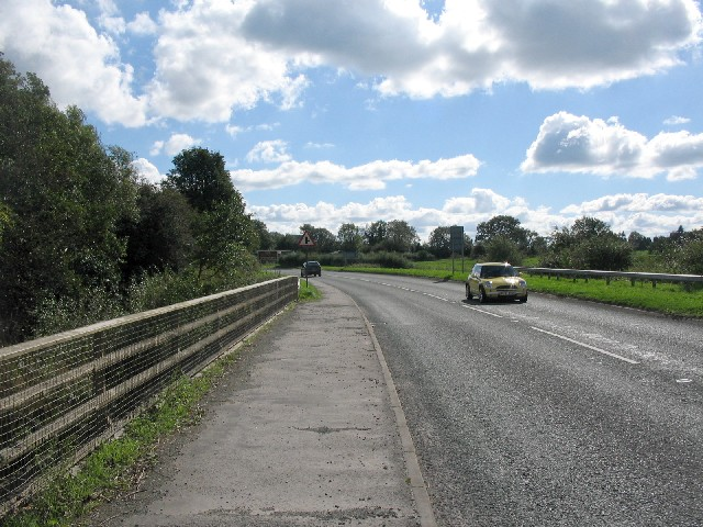 Approaching Yr Wyddgrug (Mold) A view looking to the southeast along the A541 as it crosses the bridge over the Afon Alyn (River Alyn)on the approach to Yr Wyddgrug (Mold).